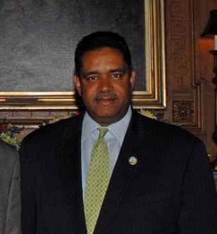 United States Virgin Islands Governor John de Jongh